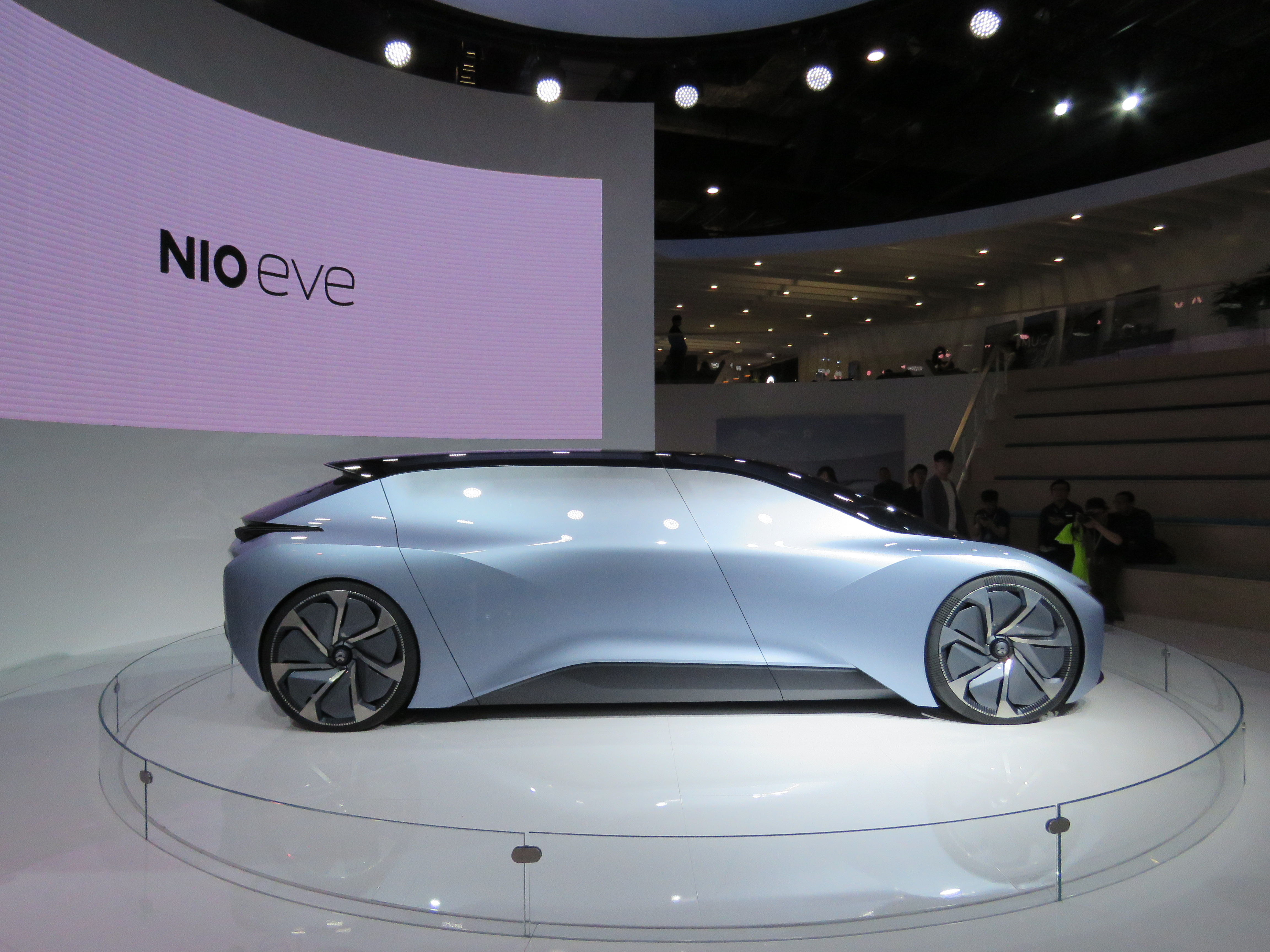 NIO Eve concept